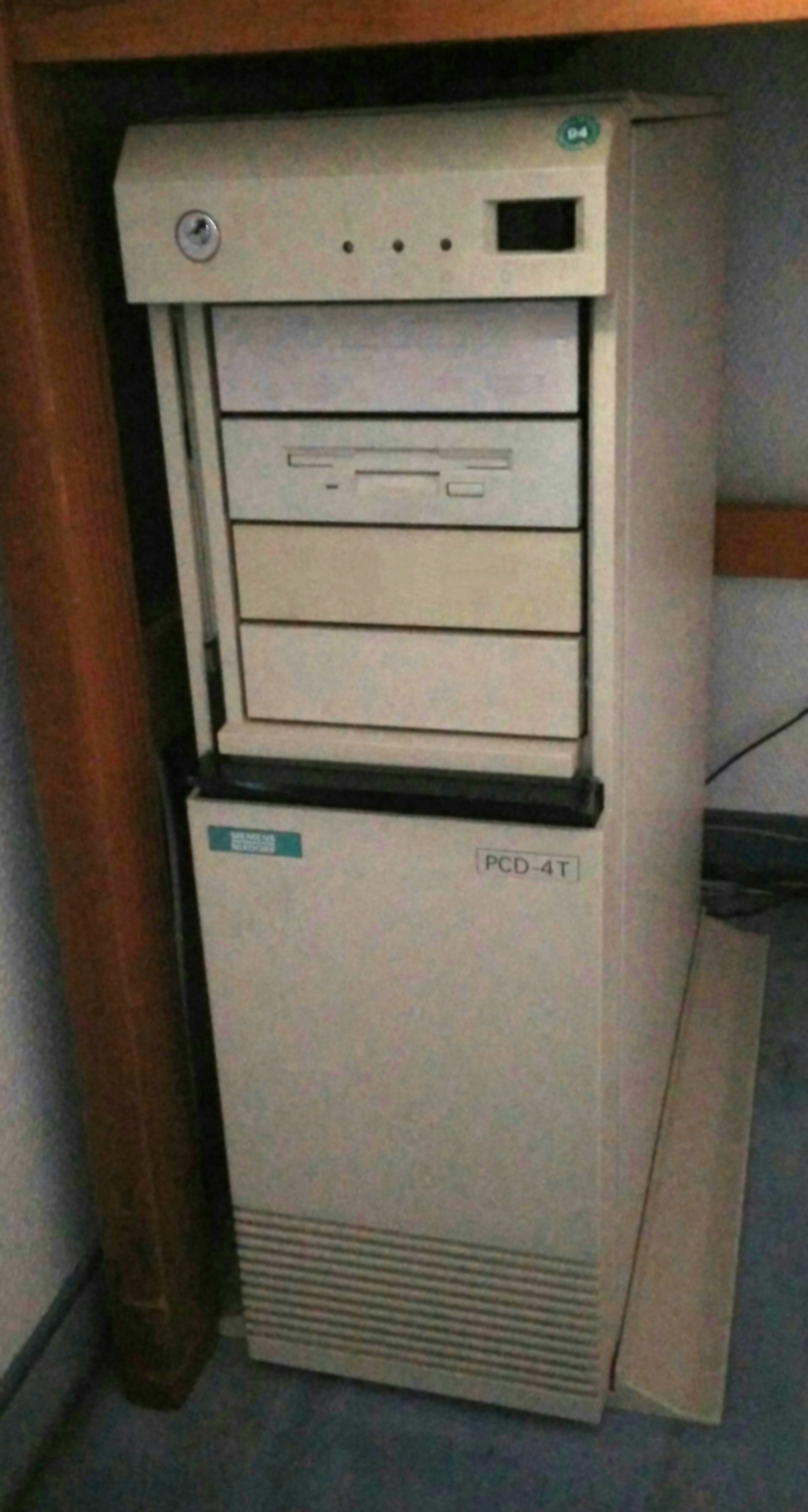 Siemens-Nixdorf PCD-4T